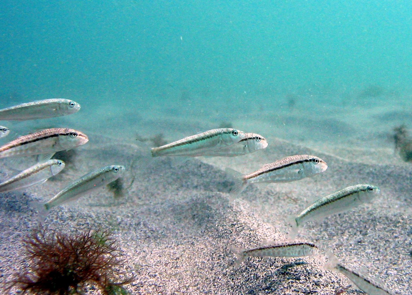 Black-Sea goat fish